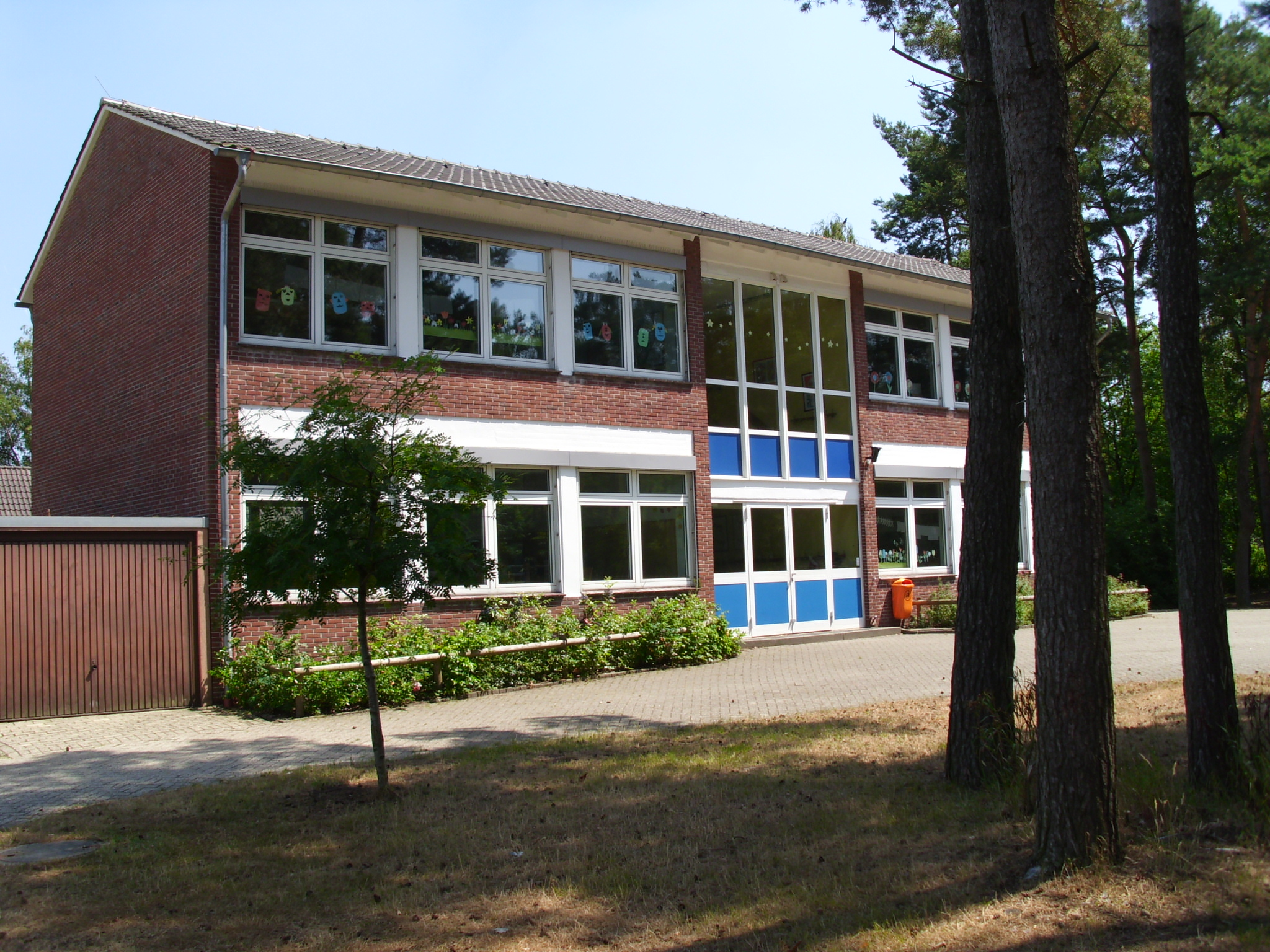 School of Klausheide (Grafschaft Bentheim), new building